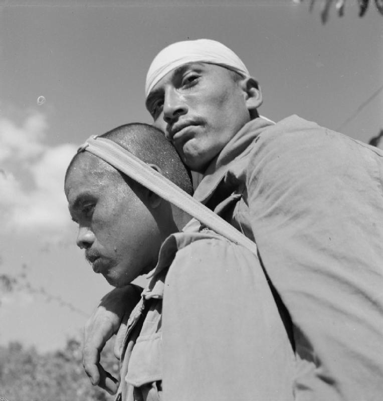 Cecil Beaton Photographs- General India 1944: A Gurkha soldier transporting a wounded man on his back through the jungle.